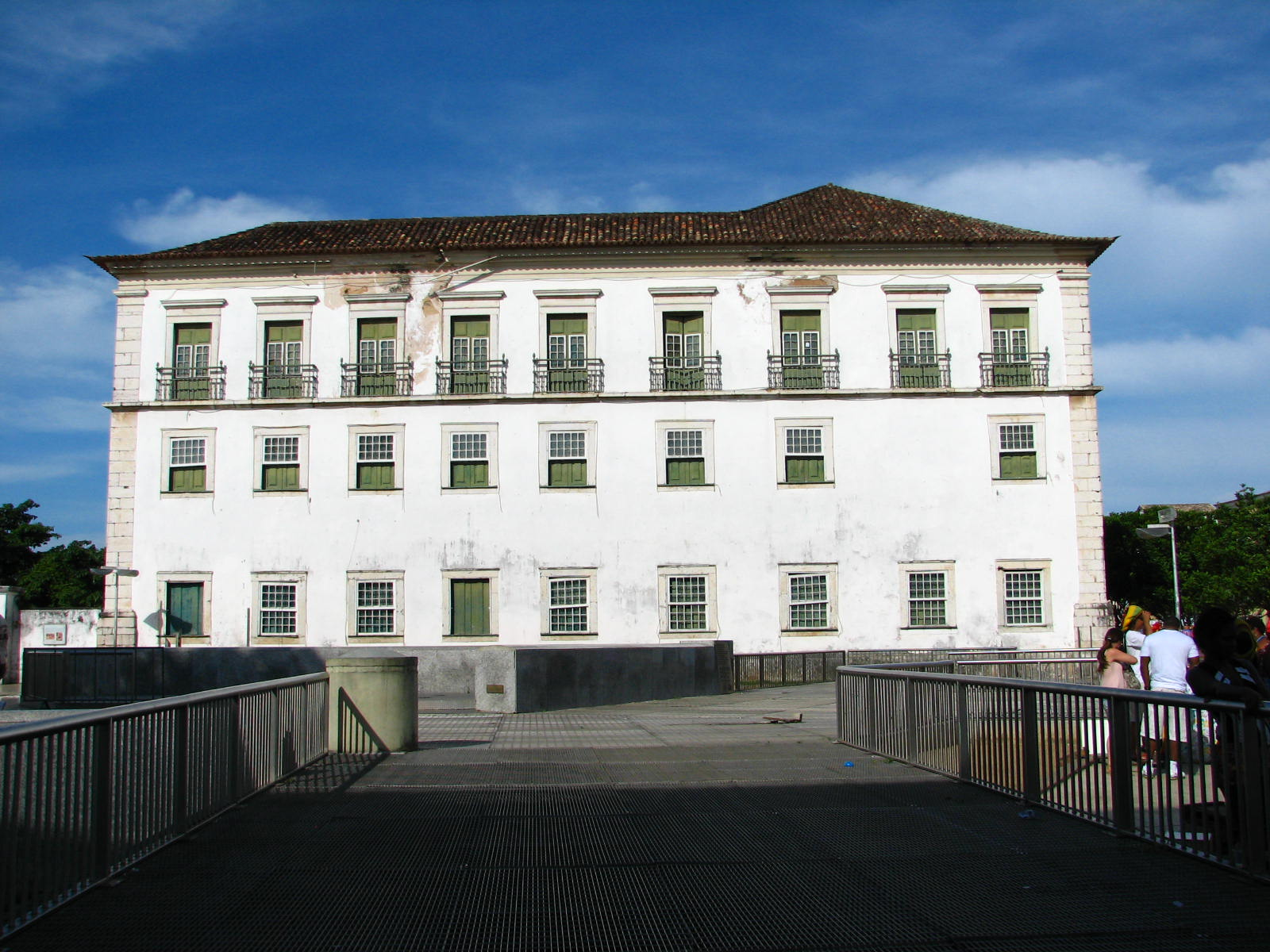 Bishop's palace (18th century) in Salvador, Bahia, Brazil